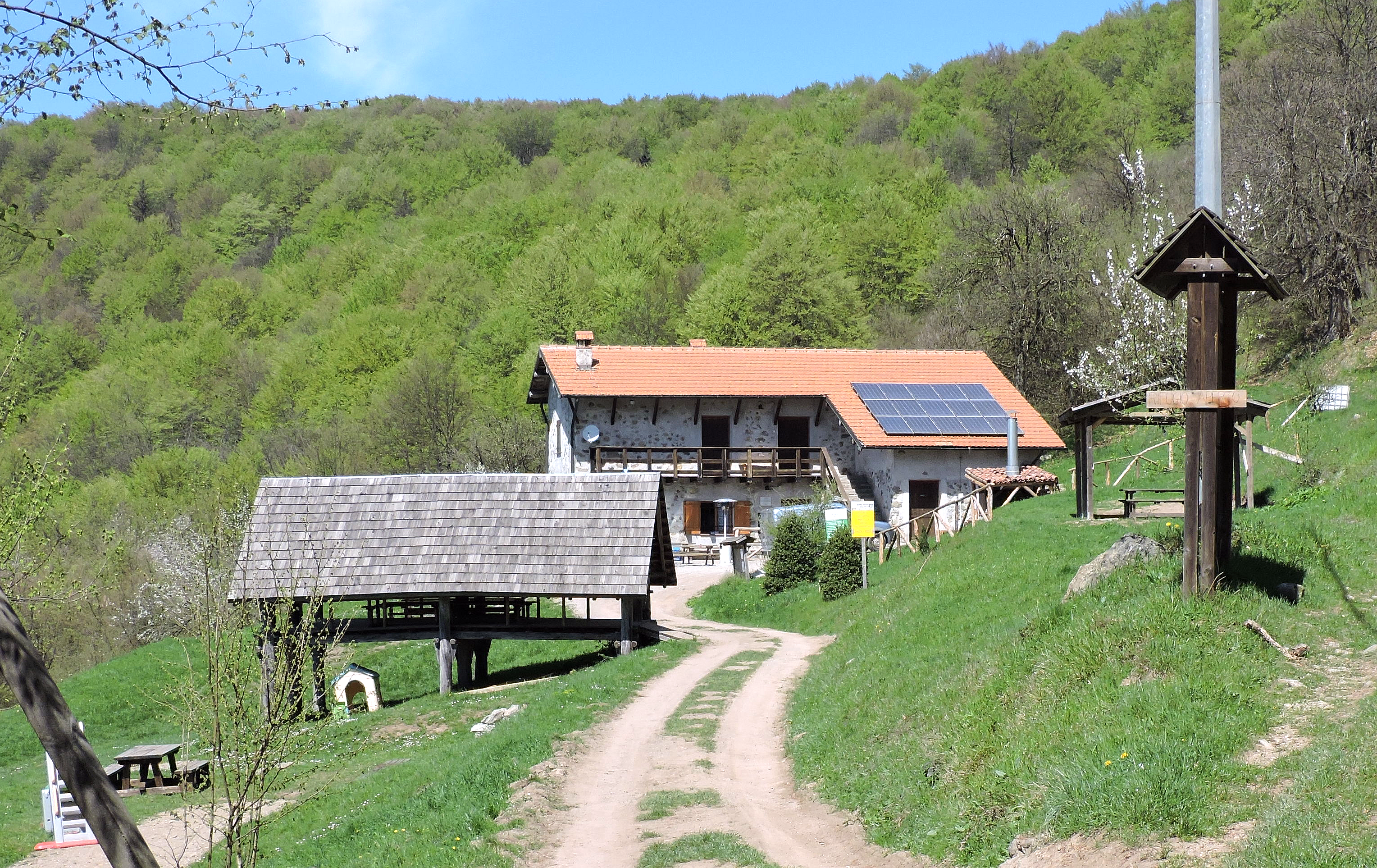 Riserva Naturale Regionale Adelasia (SV, Italy)ː Cascina Miera